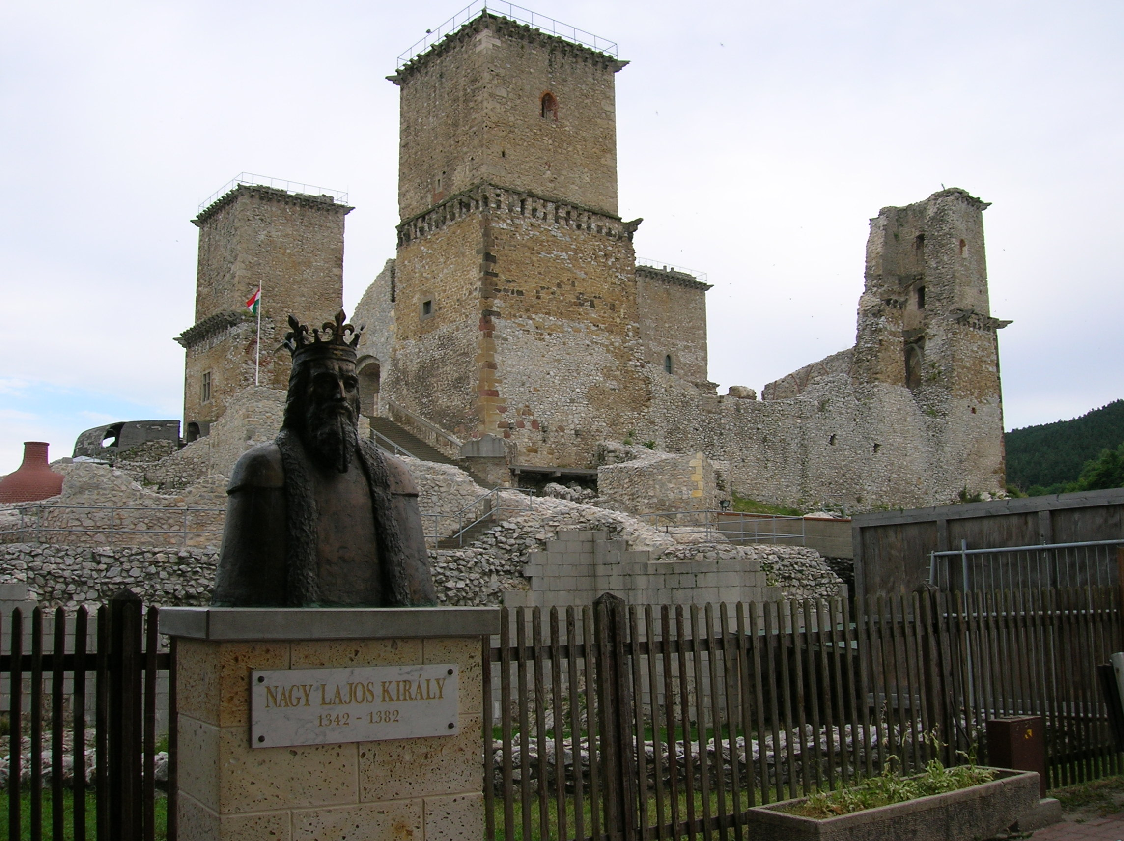 The Castle of Diósgyőr with statue of King Louis the Great.